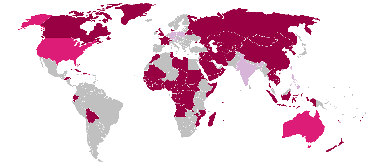 Worldwide laws regarding killing dogs for consumption Dog killing is legal Dog killing is partially illegal1 Dog killing is illegal Unknown 1the laws vary internally and/or they include exceptions for ritual/religious slaughter